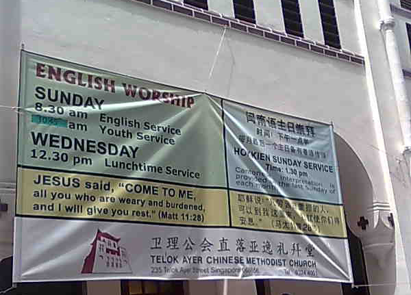 A banner announcing English and Hokkien services at Telok Ayer Chinese Methodist Church, Singapore.